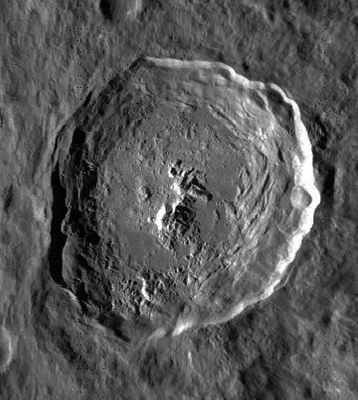 LROC image WAC No. M103209311ME.